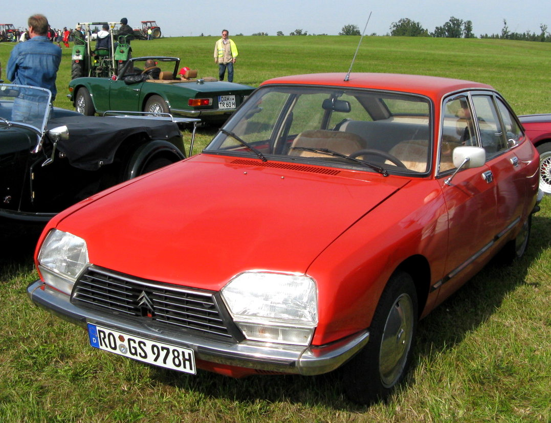 1978 Citroen GS Pallas at vintage vehicle & airplane show in Jesenwang (Bavaria)